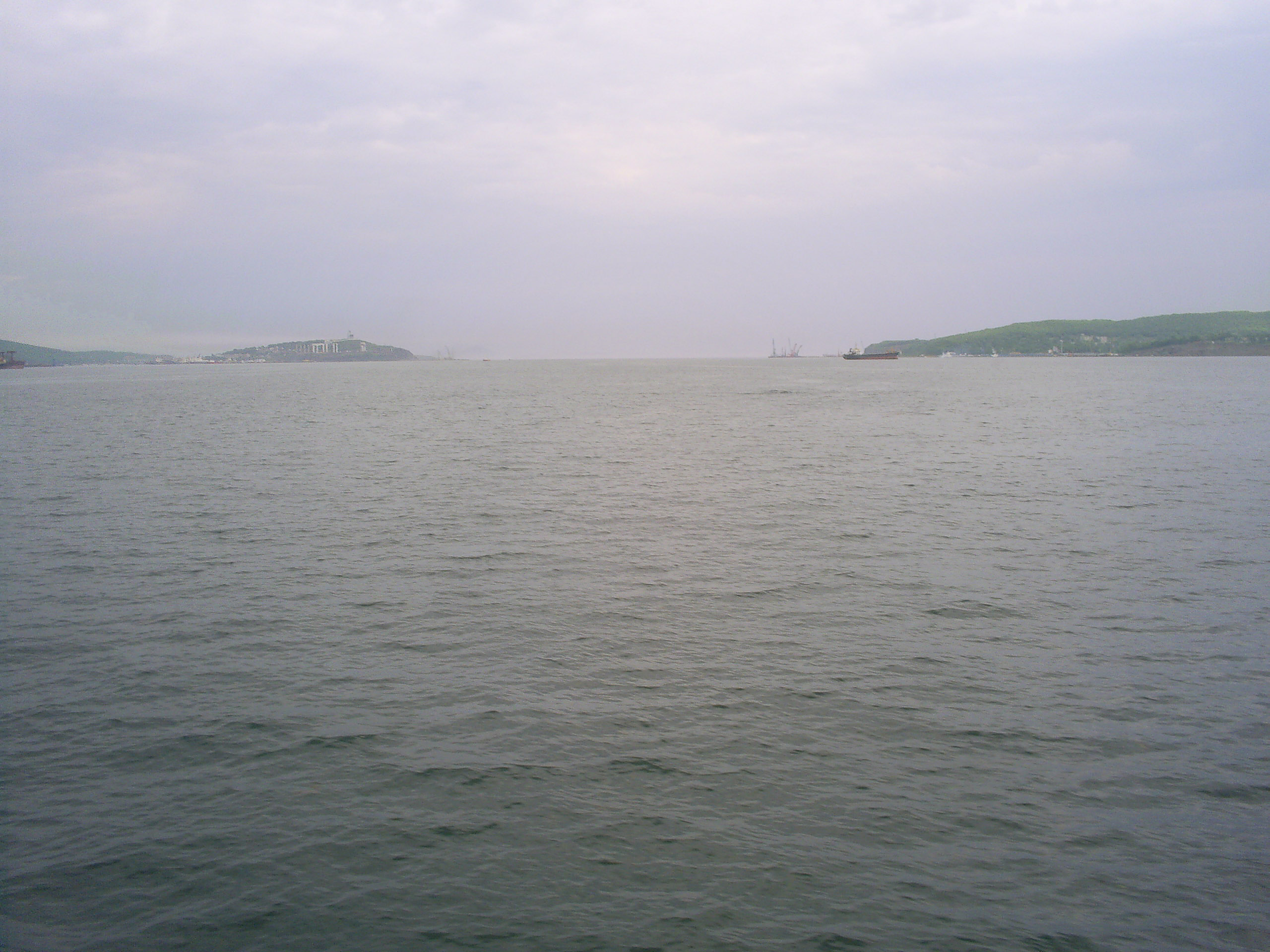 Bosphor Vostochny Strait, Vladivostok (left) and Russky Island (right)